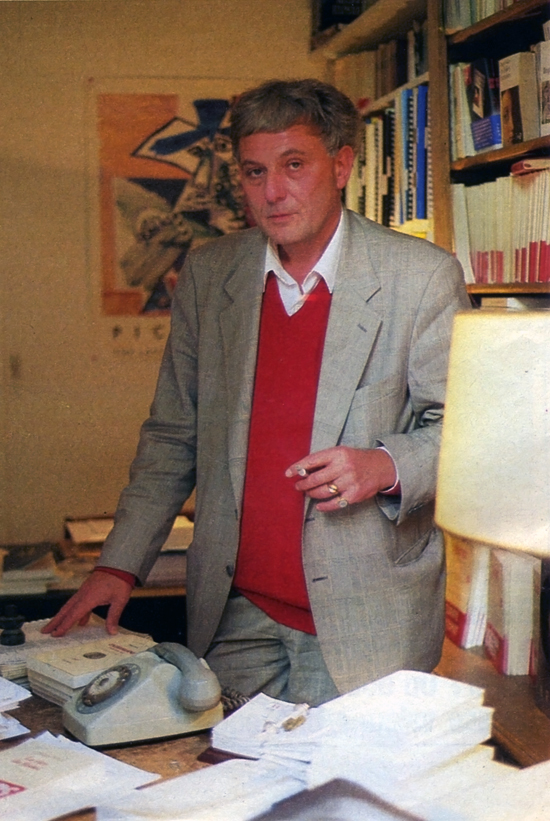 French writer Philippe Sollers